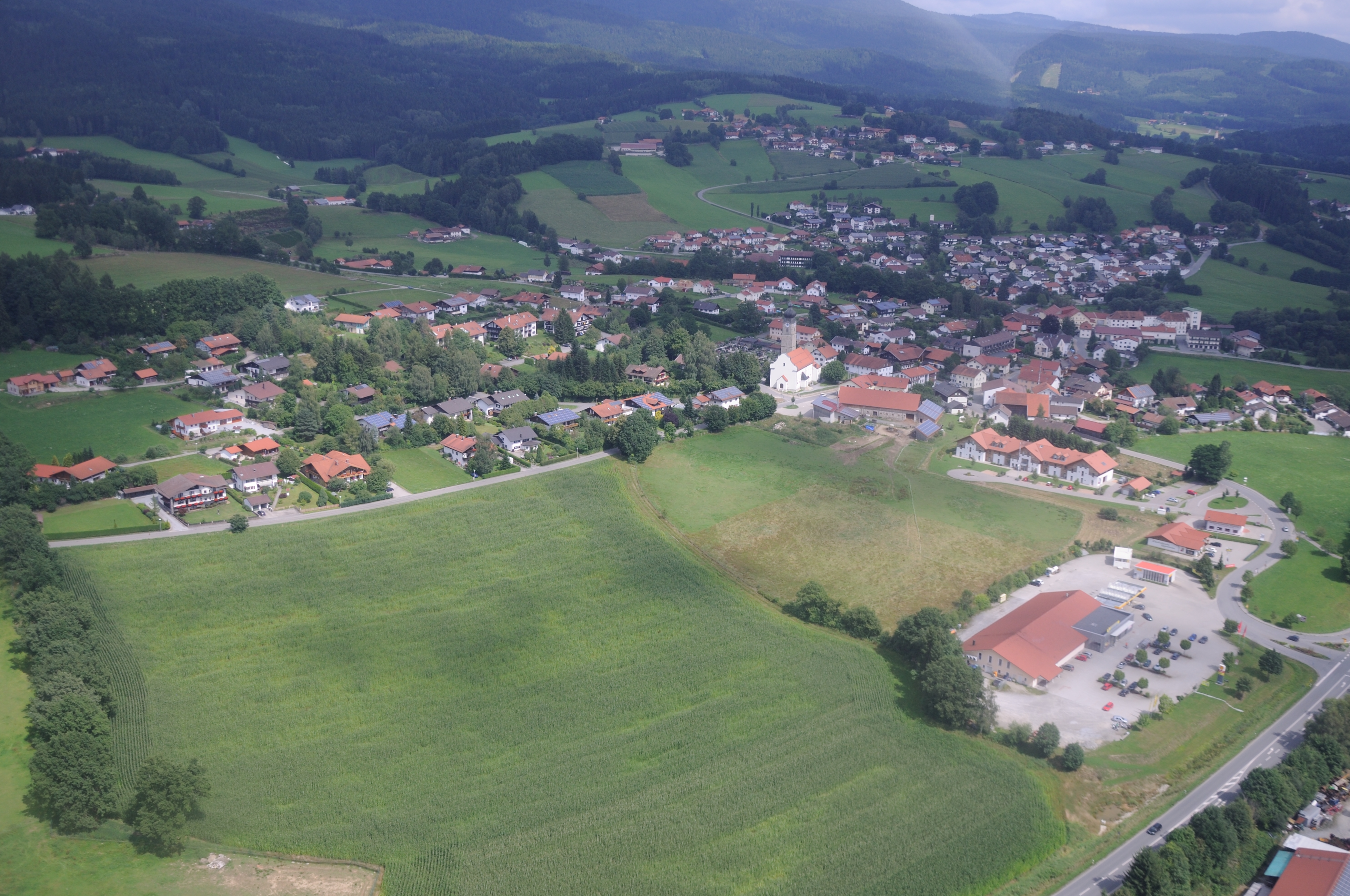 Germany, Bavaria, round trip from Arnbruck airfield